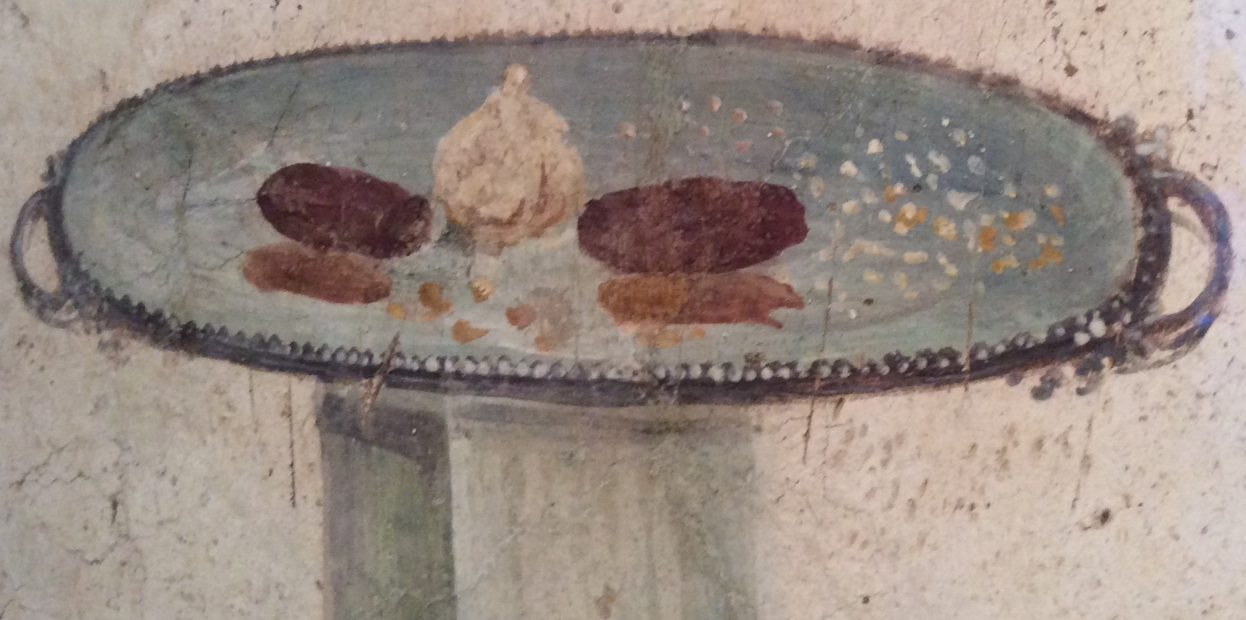 Detail of Roman wall painting of cooks preparing a kid